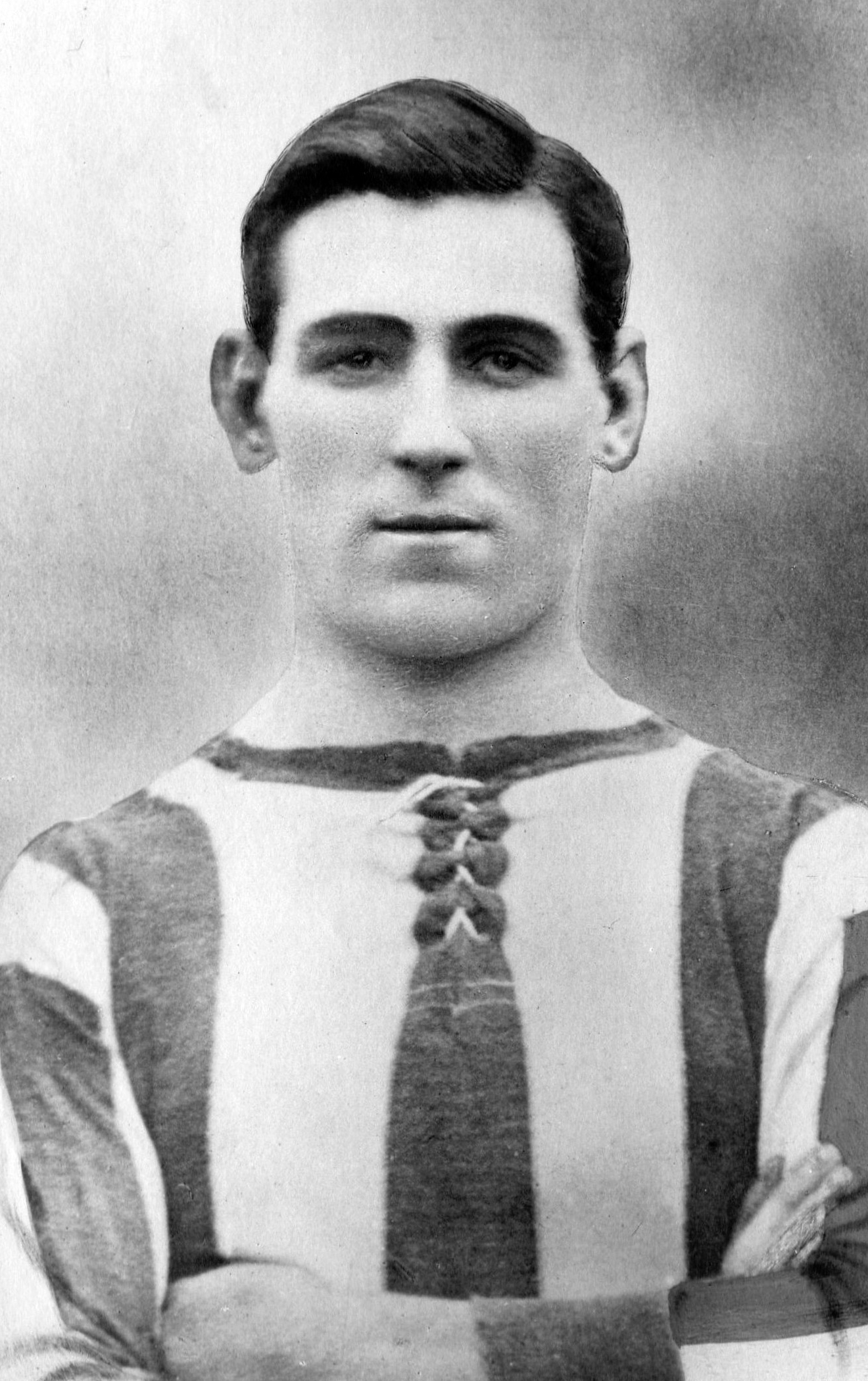 Charles Alton - Brentford FC - Depicted on an unmarked postcard. 1922